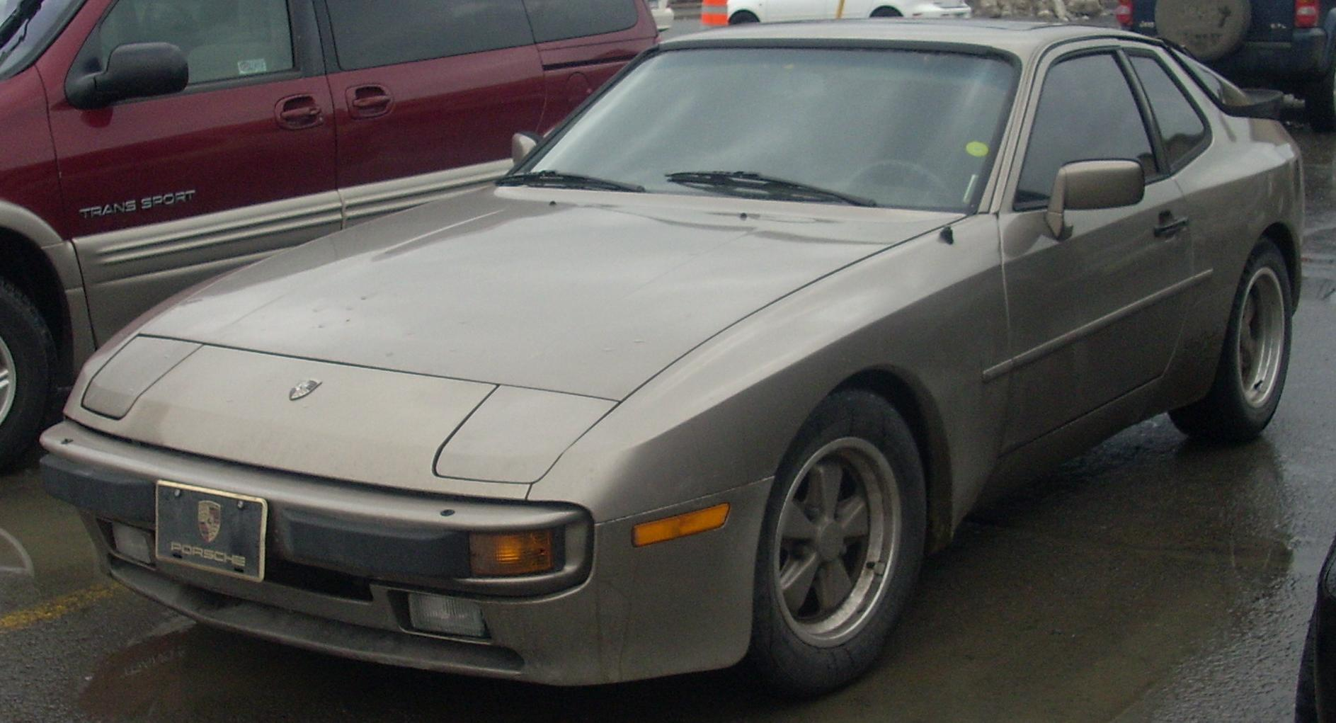 1982-1985 Porsche 944 photographed in Montreal, Quebec, Canada.